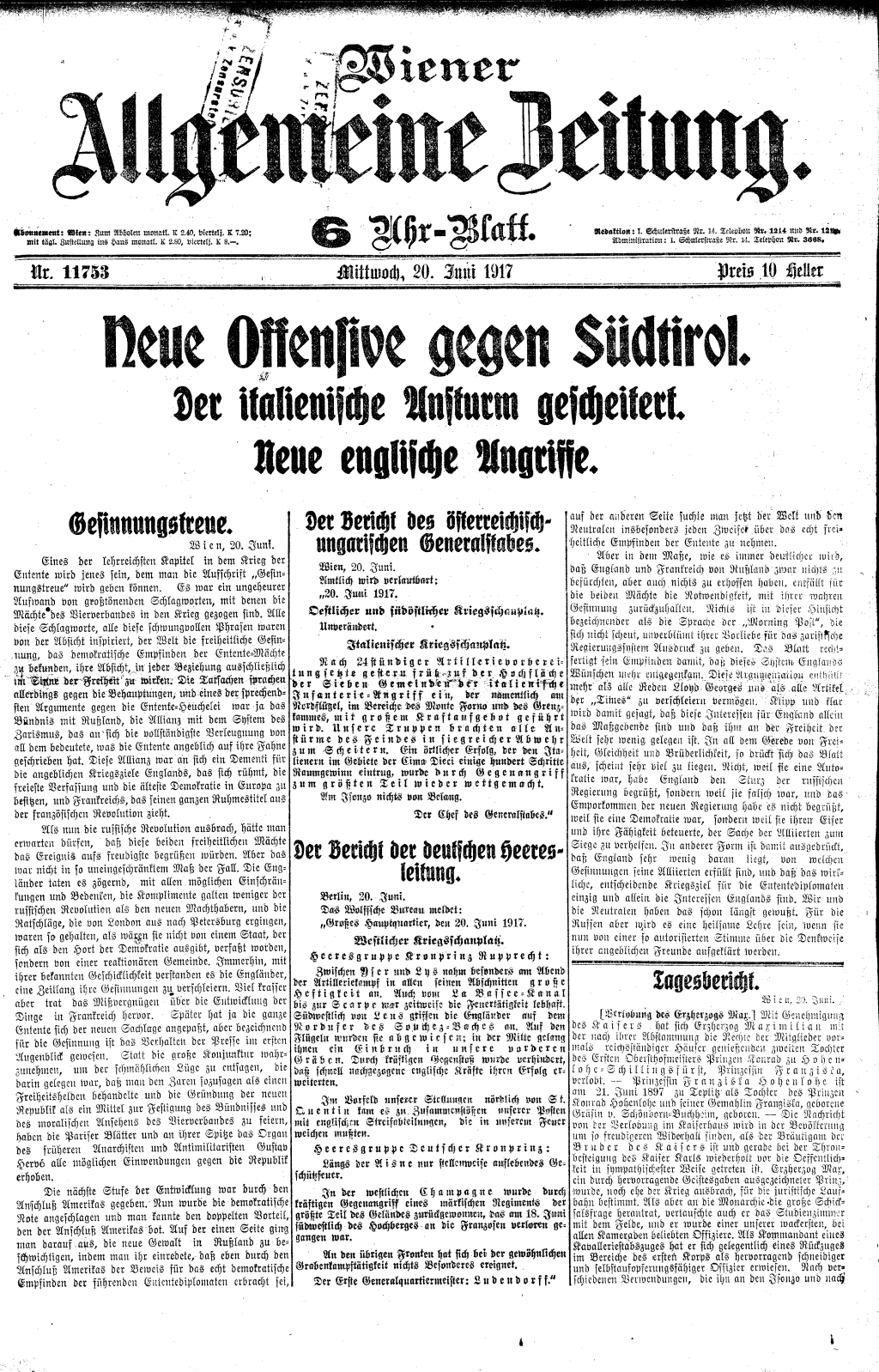 Cover from the "Wiener Allgemeine Zeitung"